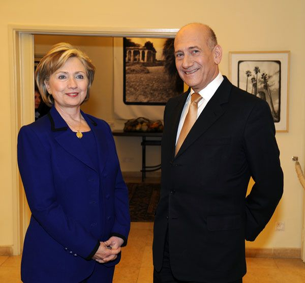 Secretary Clinton with Ehud Olmert.